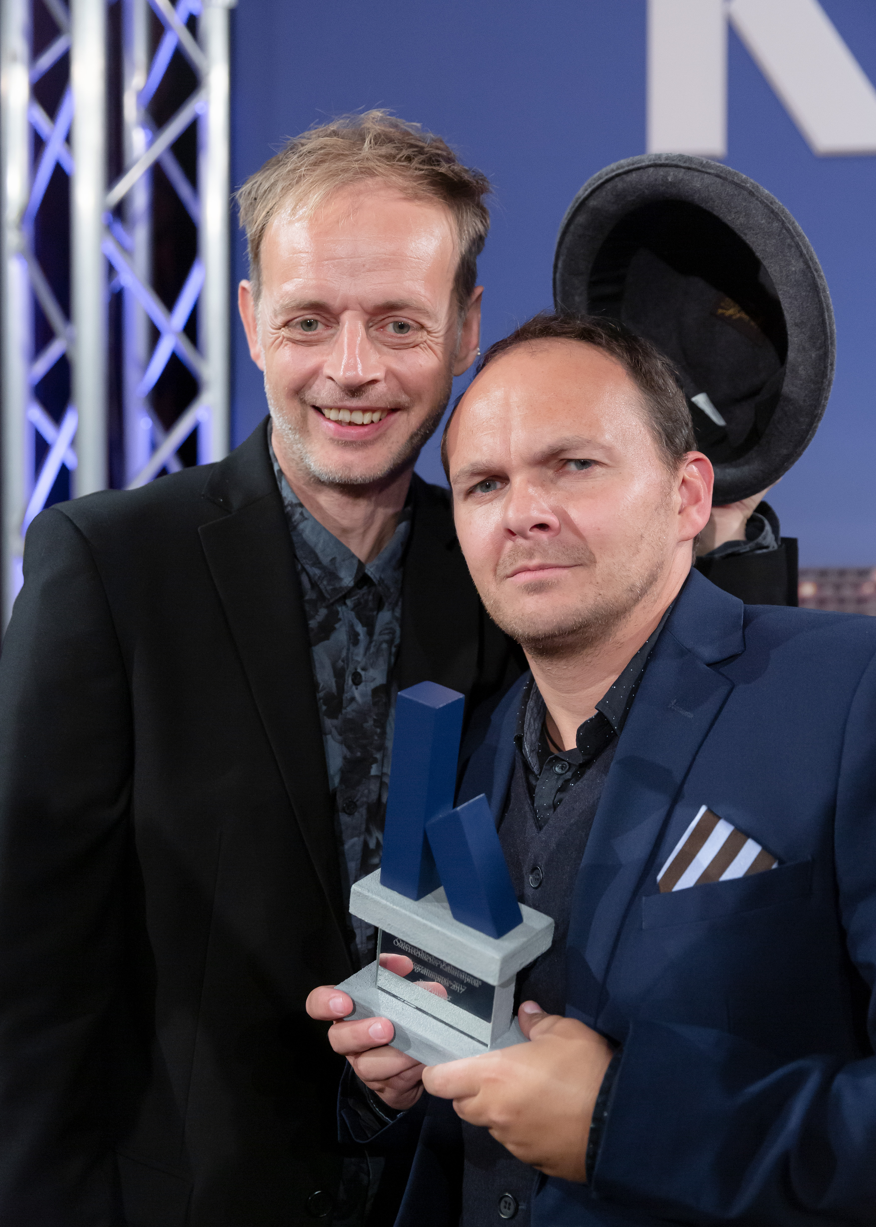 BlöZinger, Austrian Cabaret Award 2017 at Urania in Vienna, Austria.